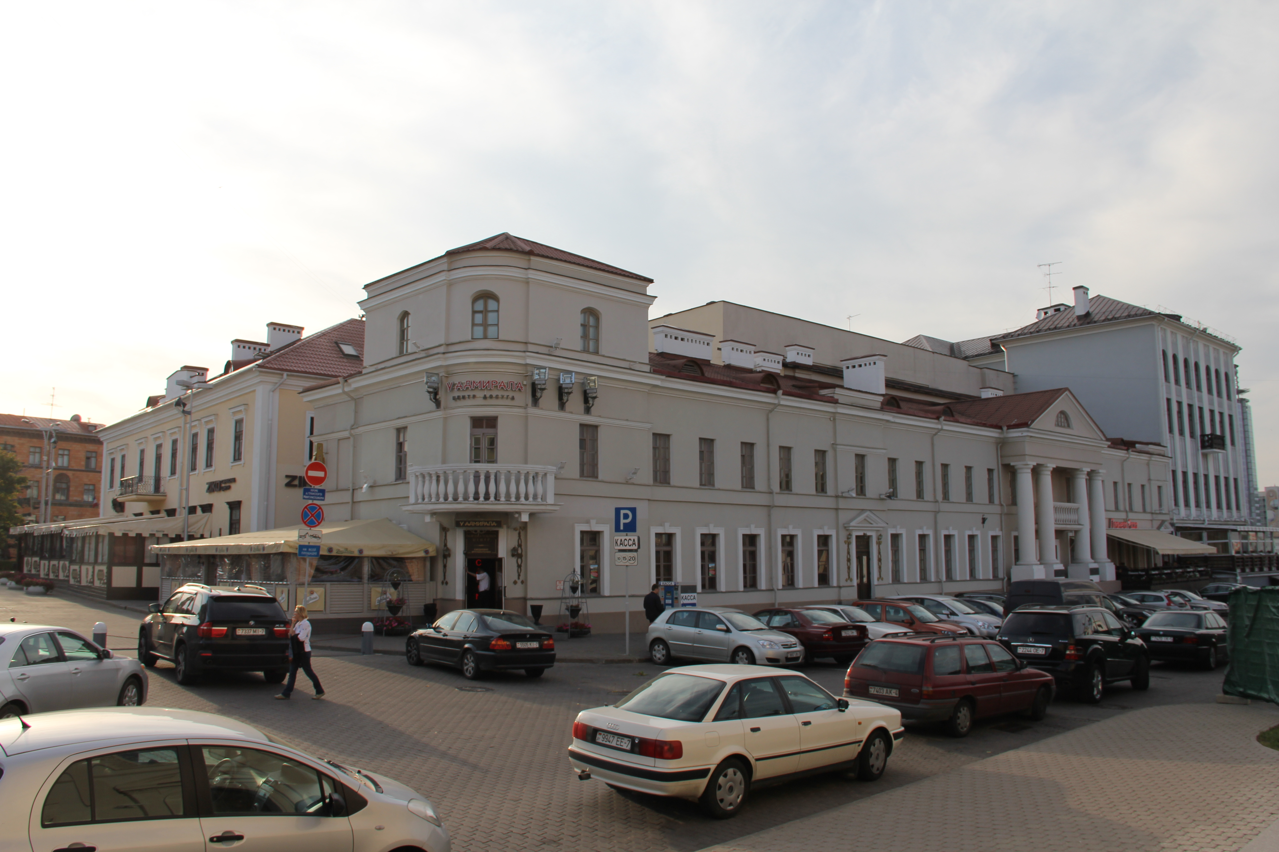 Беларуская (тарашкевіца): Былы гасьціны двор. г. Менск This is a photo of Belarusian heritage monument. Reference number: 712Г000234 ( WLM)